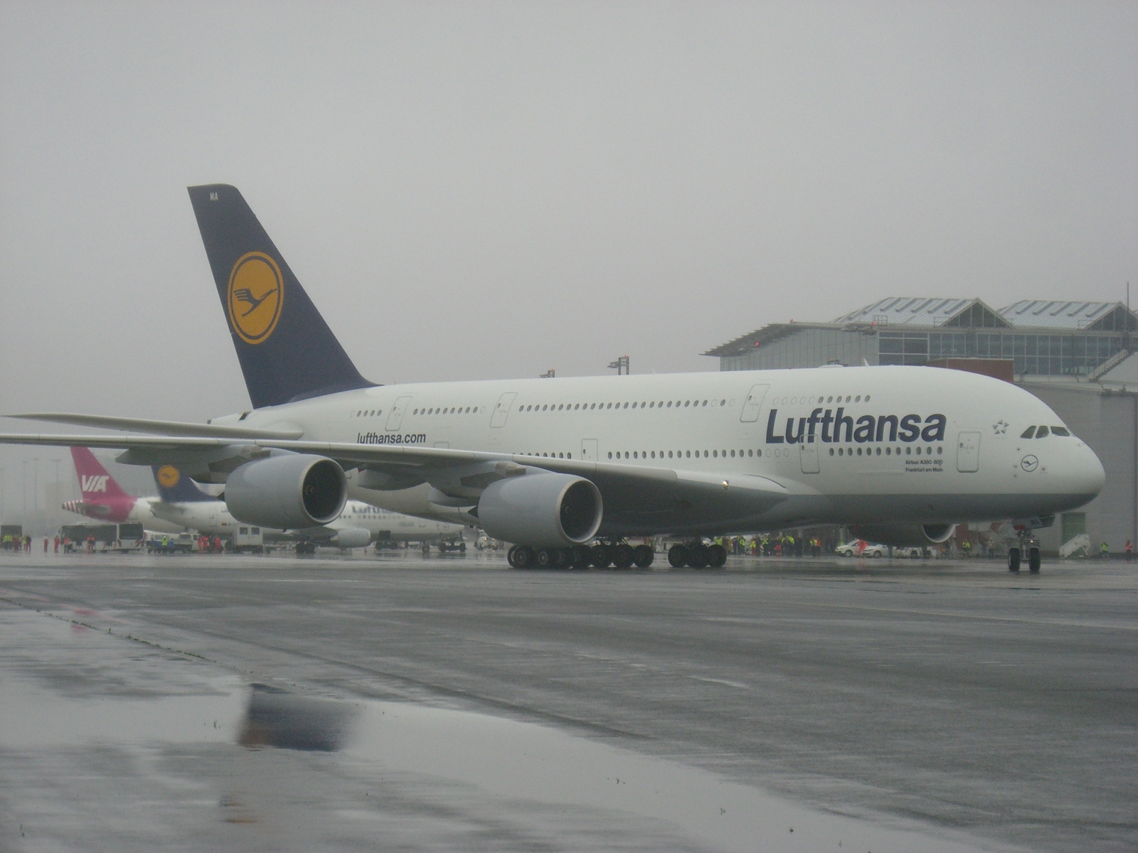 The first Airbus A380 from Lufthansa is proceeding to his Stand at Dresden Flughafen